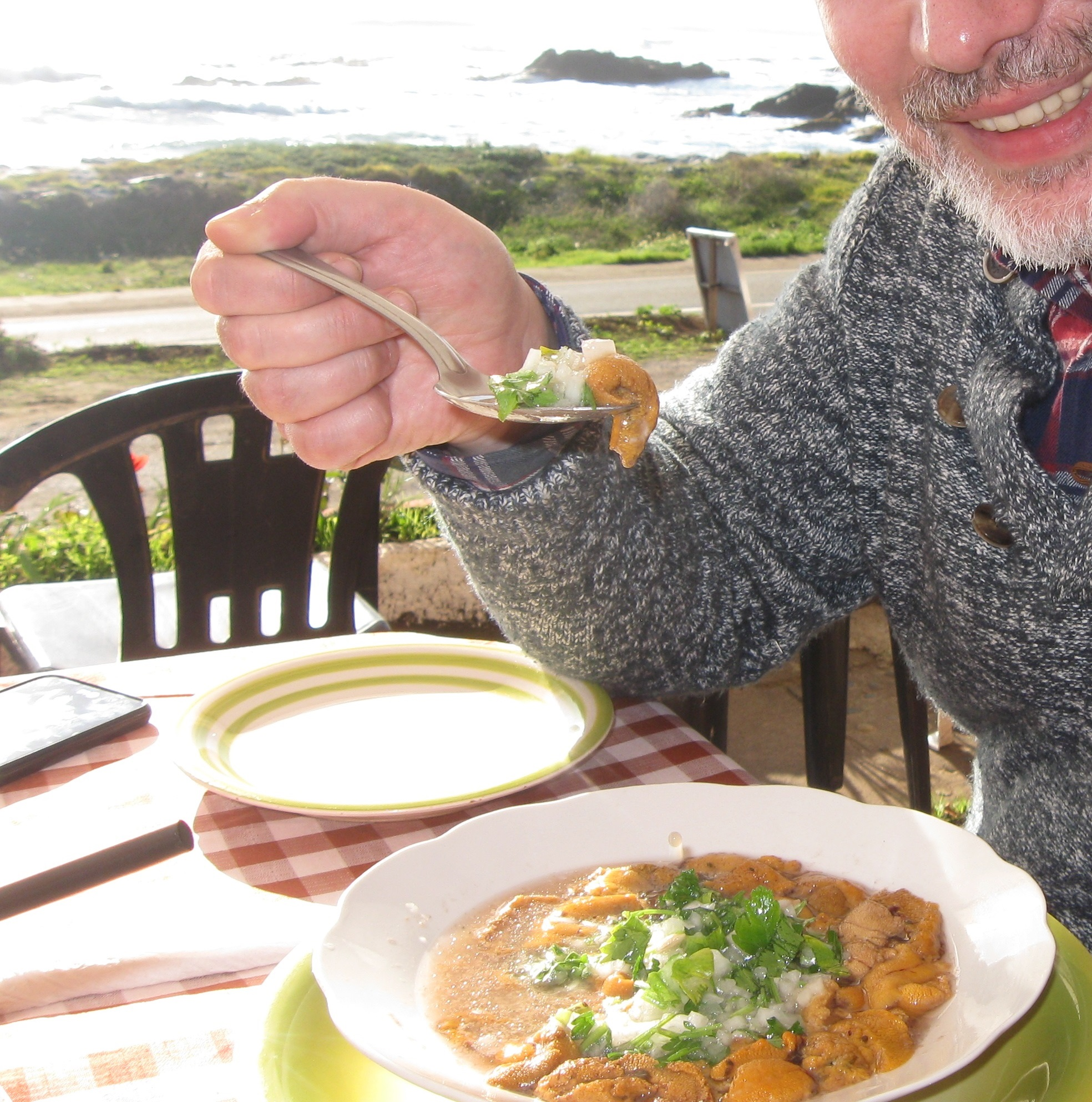 Eating raw sea urchins in Chile